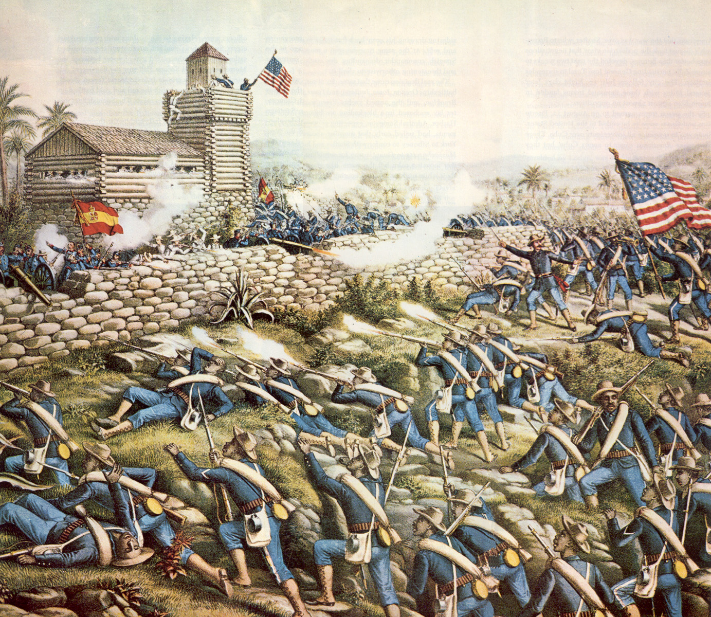 Detail from Charge of the 24th and 25th Colored Infantry, July 2nd 1898 depicting the Battle of San Juan Hill. 1899 lithograph by Chicago printers Kurz and Allison. Online. Converted to JPEG and cropped. Public domain as per Bridgeman Art Library v. Corel Corp.